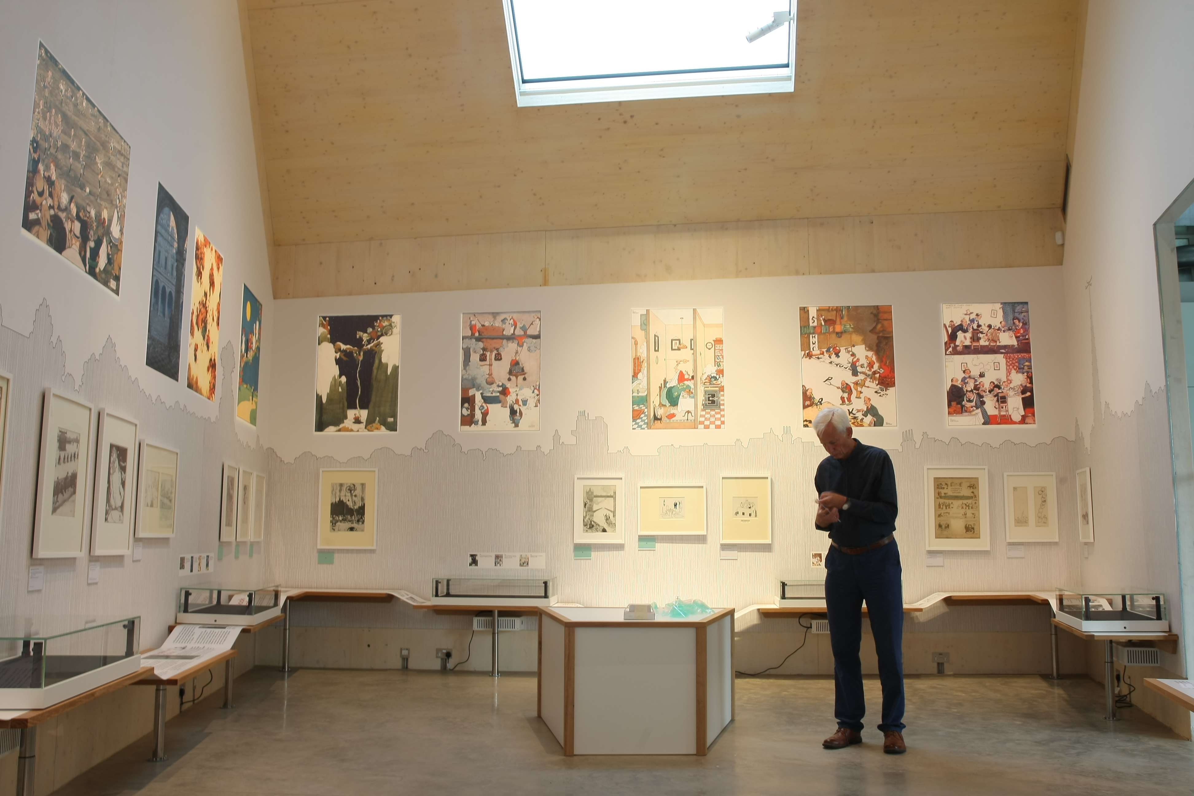 Heath Robinson Museum Permanent Exhibition Gallery - photo by Tom Fish